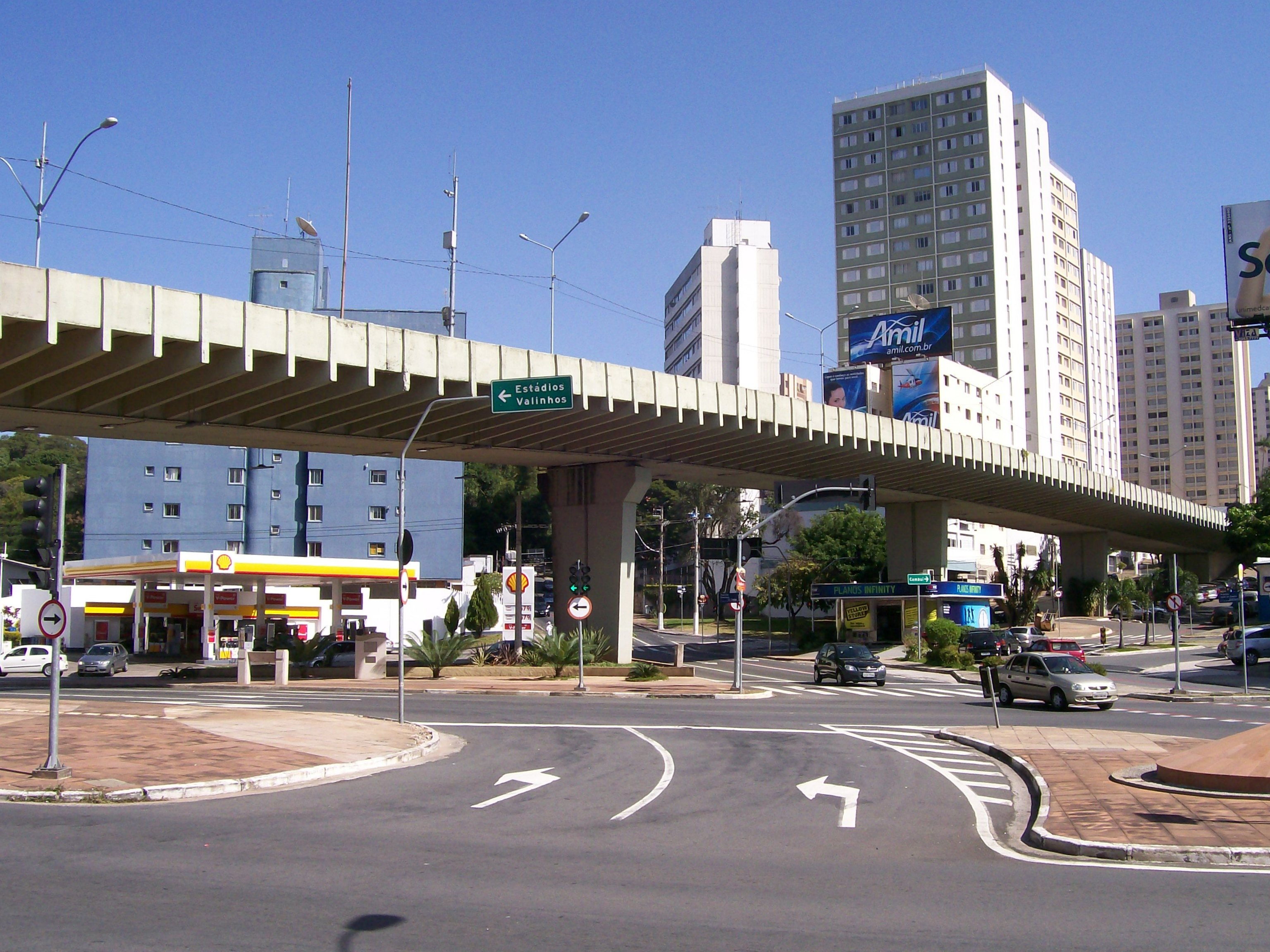 São Paulo Viaduct.